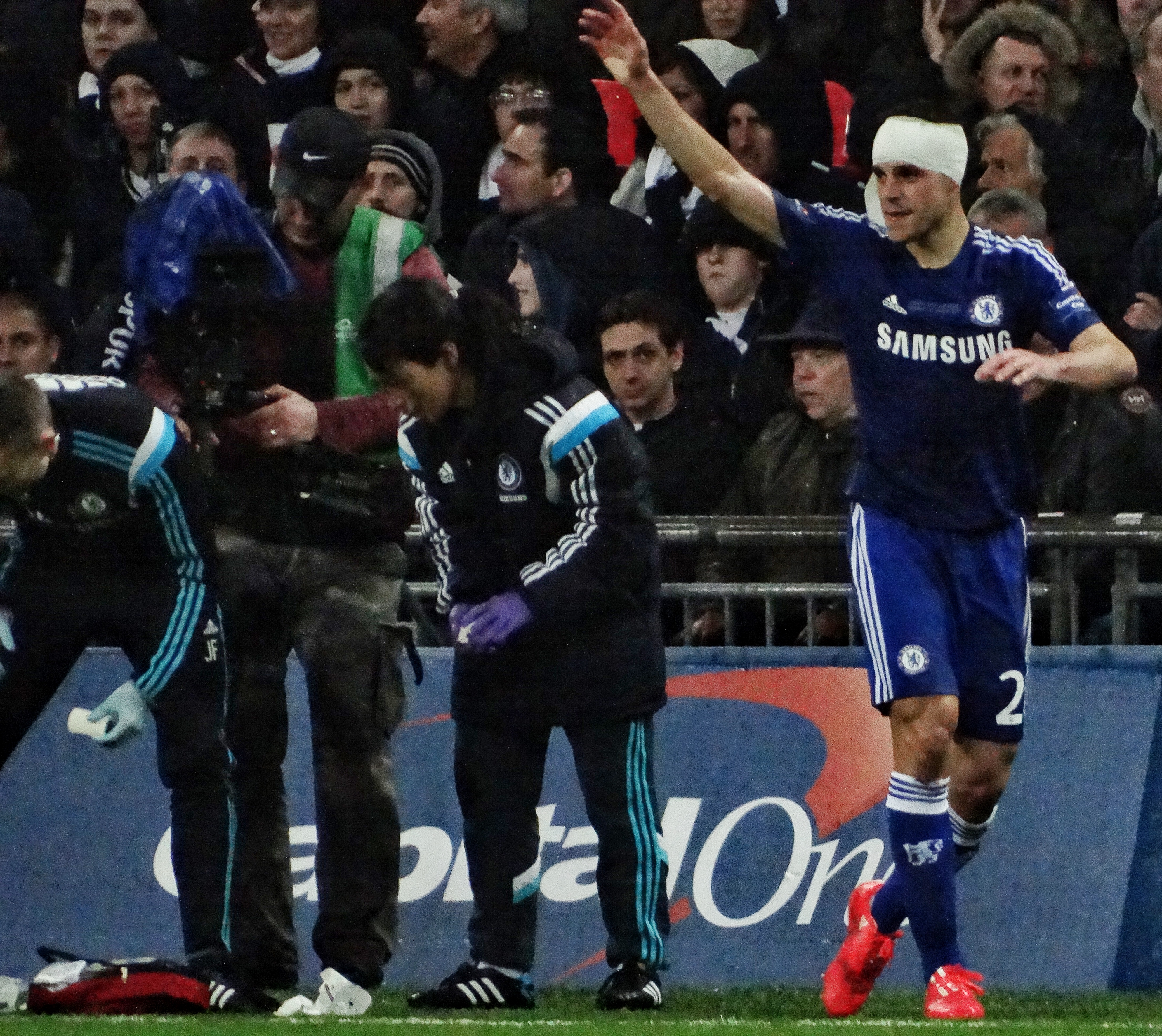 Chelsea 2 Spurs 0 Capital One Cup winners 2015